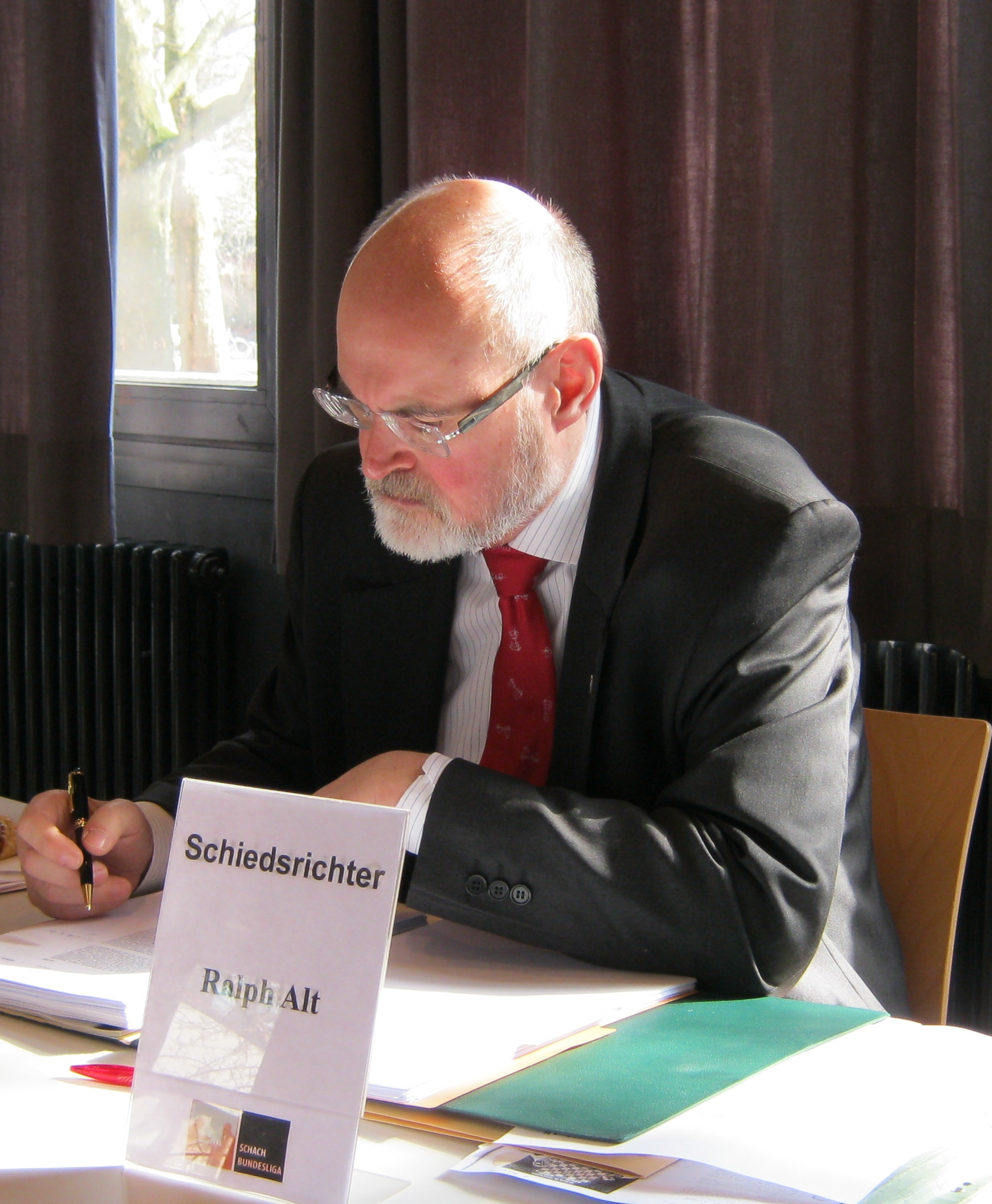 Ralph Alt, chess arbiter from Germany